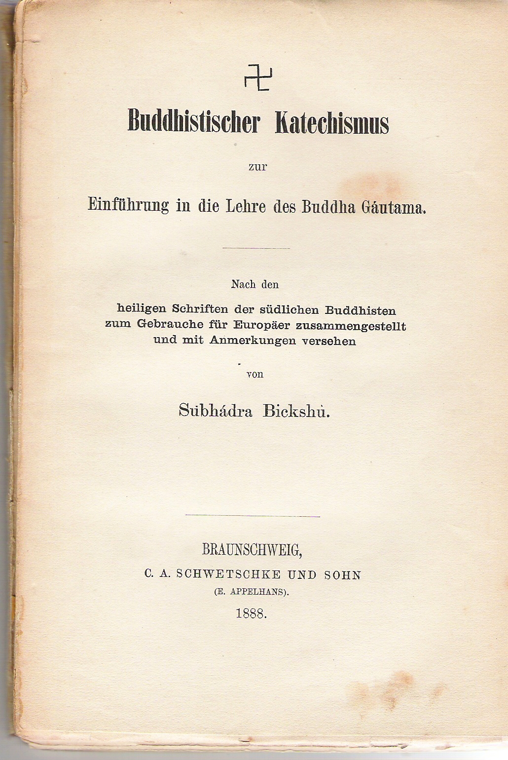 Buddhistischer Katechismus 1888 Photograph by Gakuro